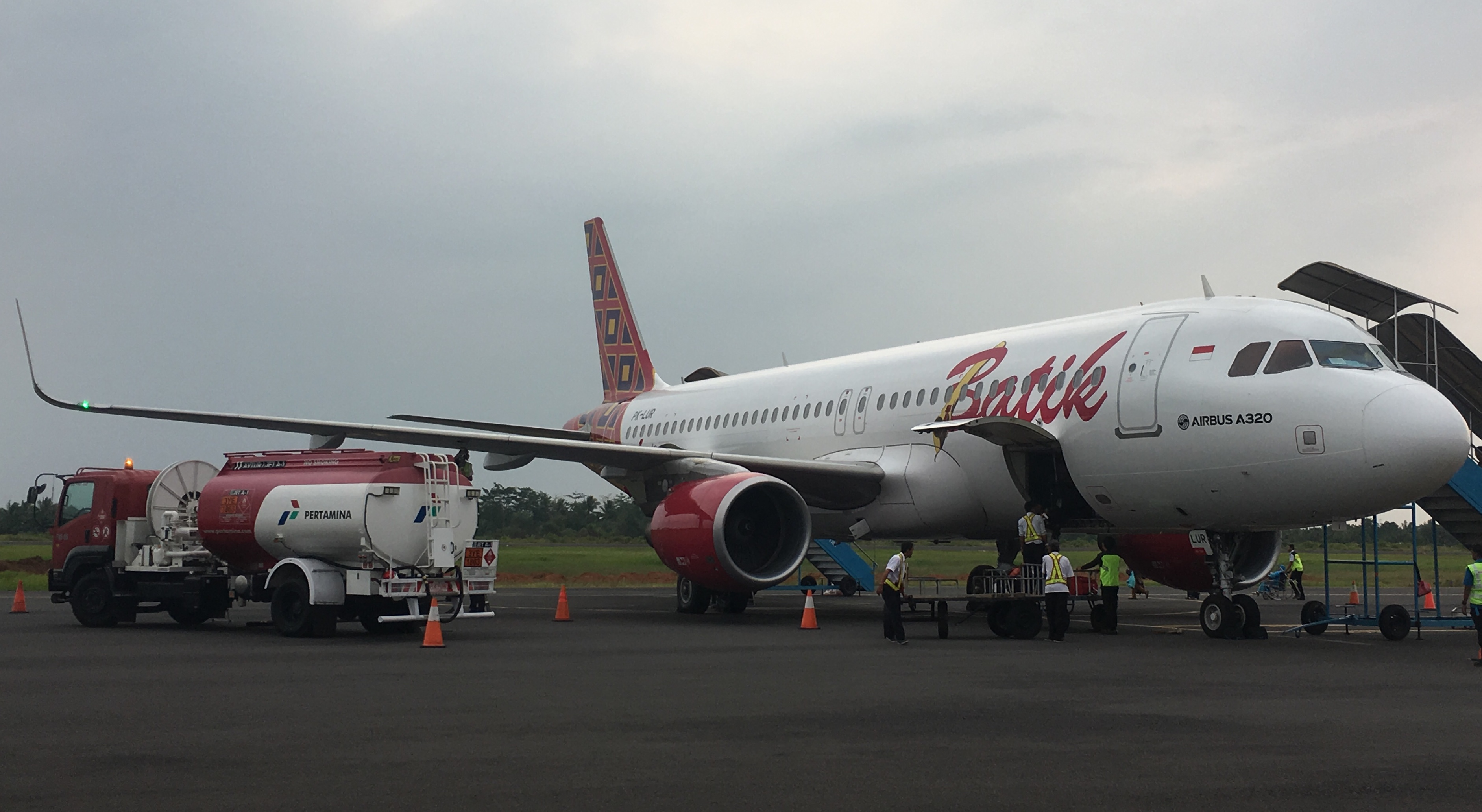 Batik Air Airbus A320 PK-LUR at Fatmawati Soekarno Airport, Bengkulu